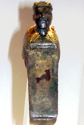 The "Loch Shiel Crozier Drop", West Highlands of Scotland, 12th century, a Romanesque copper alloy casting, found by metal detector in 1992. This part of the crozier is hollow for containing a relic, and shows the bust of a king. See: Glenn, Virginia, Romanesque and Gothic: Decorative Metalwork and Ivory Carvings in the Museum of Scotland, #114, 2003, National Museums of Scotland, ISBN 901663558